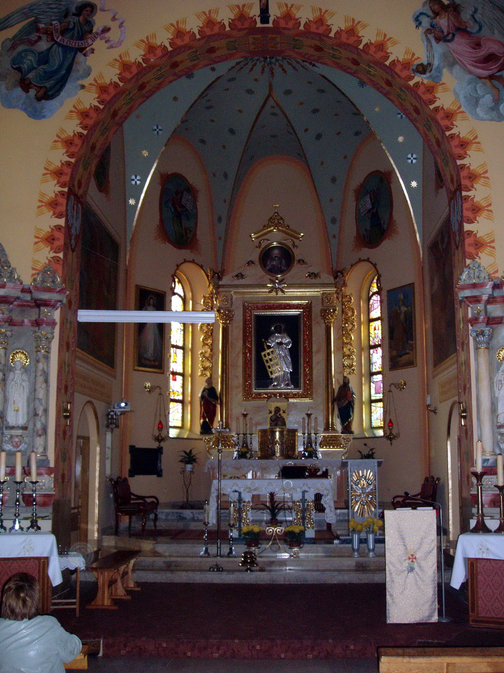 Sw. Lawrence Deacon and Martyr church (altar) - Regulice (Chrzanow county)